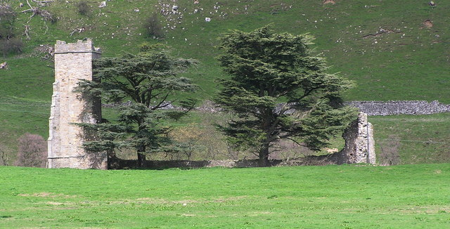 Ellerton Priory. Ruins of Ellerton Priory, founded by Warnerus, Lord of Aske in the reign of Henry II (1154-1189) and inhabited by nuns of the austere Cistercian order. The priory was sacked in the reign of Edward III (1327-1377). At the time of its dissolution in 1535 its estate was valued at £15 10s 6d.per annum.